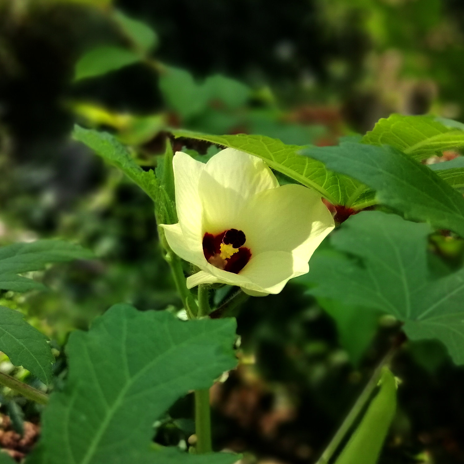 Okra flower grown in a pot